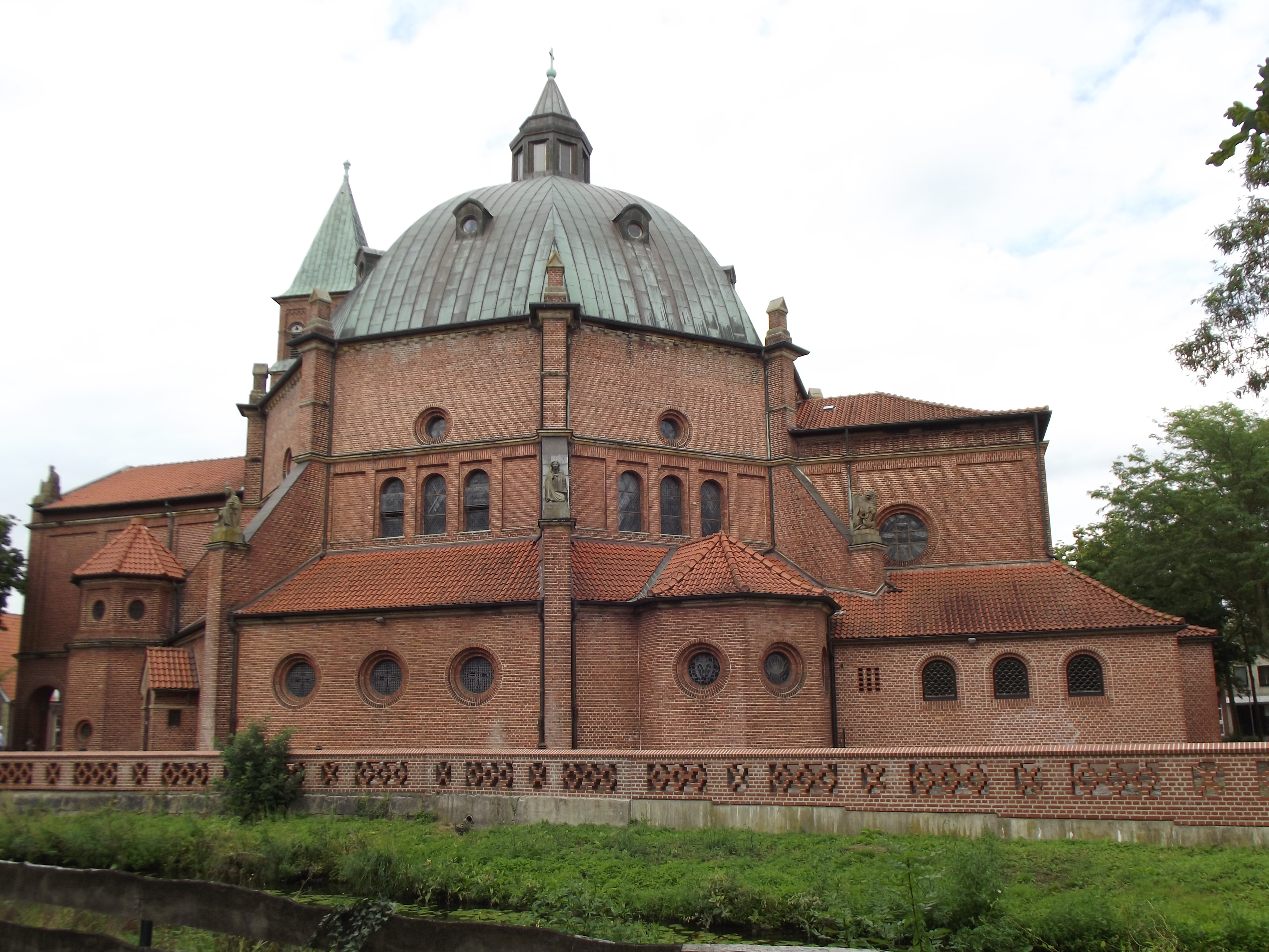 An old Catholic church which looked to me most interesting the way I photographed it.